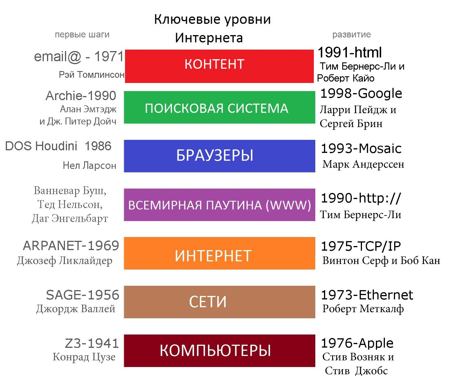 Six key layers of the internet are illustrated, with indicated years for significant advancement and highlighting the contributions made by some of the instrumental people involved in inventing and developing the technology. Listed on the left side are the highlighted rudimentary advances. Listed on the right side are the more refined advances that helped to enable major breakthroughs. For example, while computers were around since the 1940s, it was not until the advent of inexpensive personal computers in the mid-1970s that the Internet revolution could be enabled.